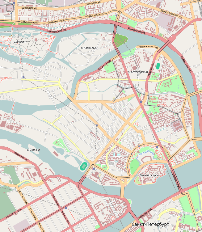 Street map of Petrogradsky District, Saint Petersburg, Russia